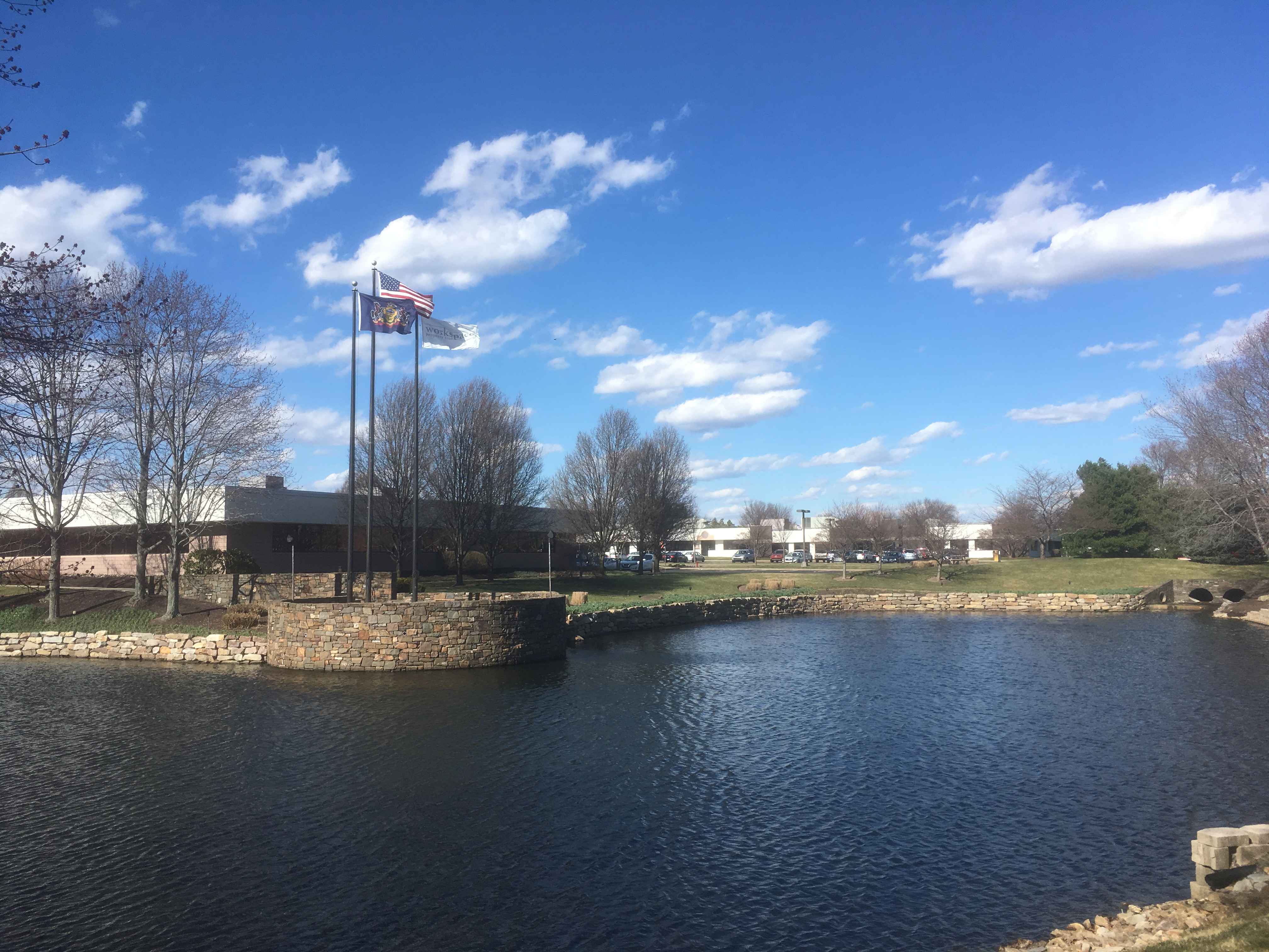 A lake and office buildings at the Pennsylvania Business Campus in Horsham, Pennsylvania